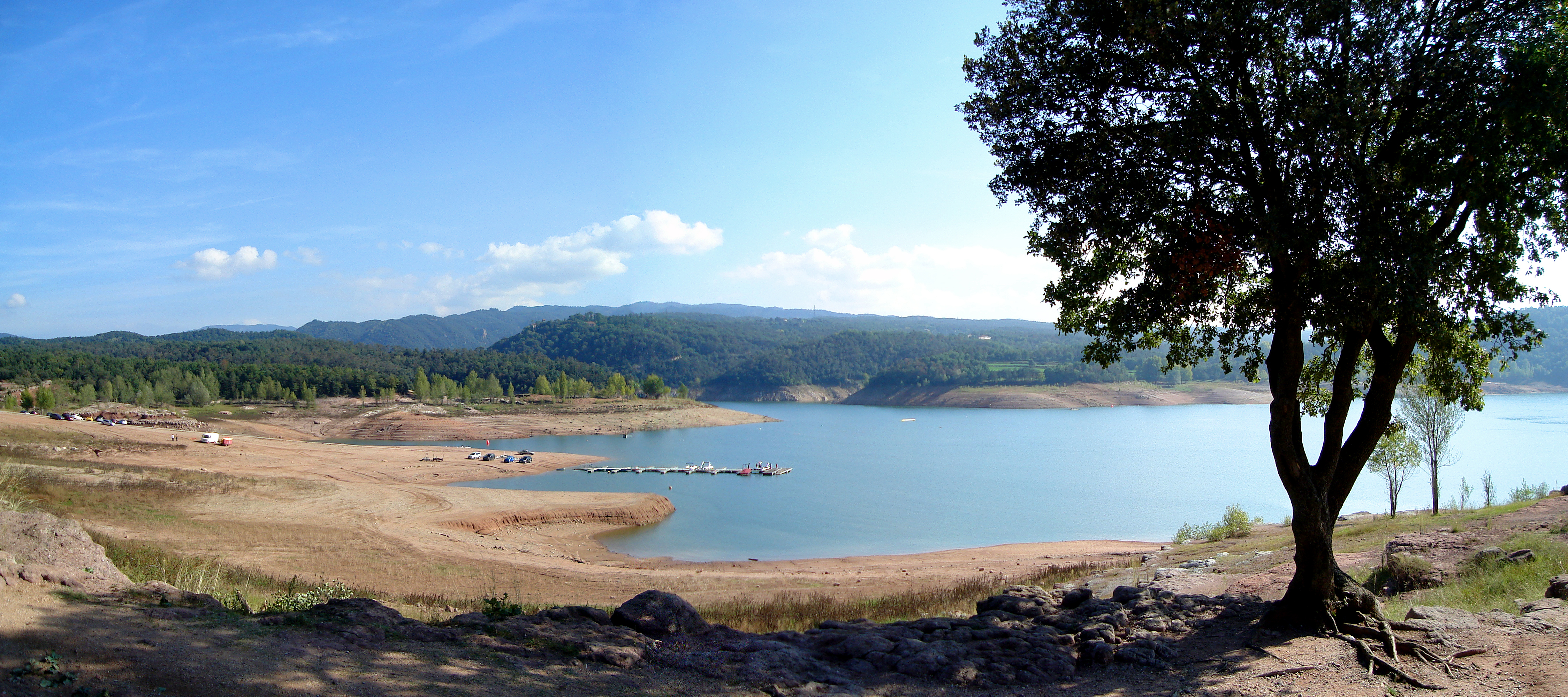 The Sau reservoir in Catalonia